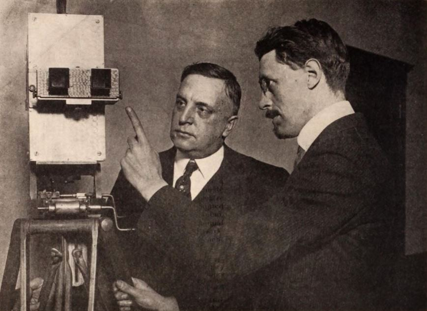 George Kirke Spoor and P. John Berggren showing their stereoscopic camera, on page 32 of the January 15, 1921 Exhibitors Herald.